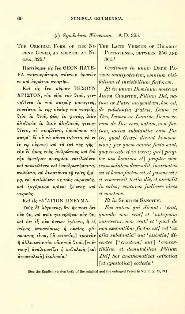 Nicene Creeds, The Creeds of Christendom with a history and critical notes, volume 2, New York 1919